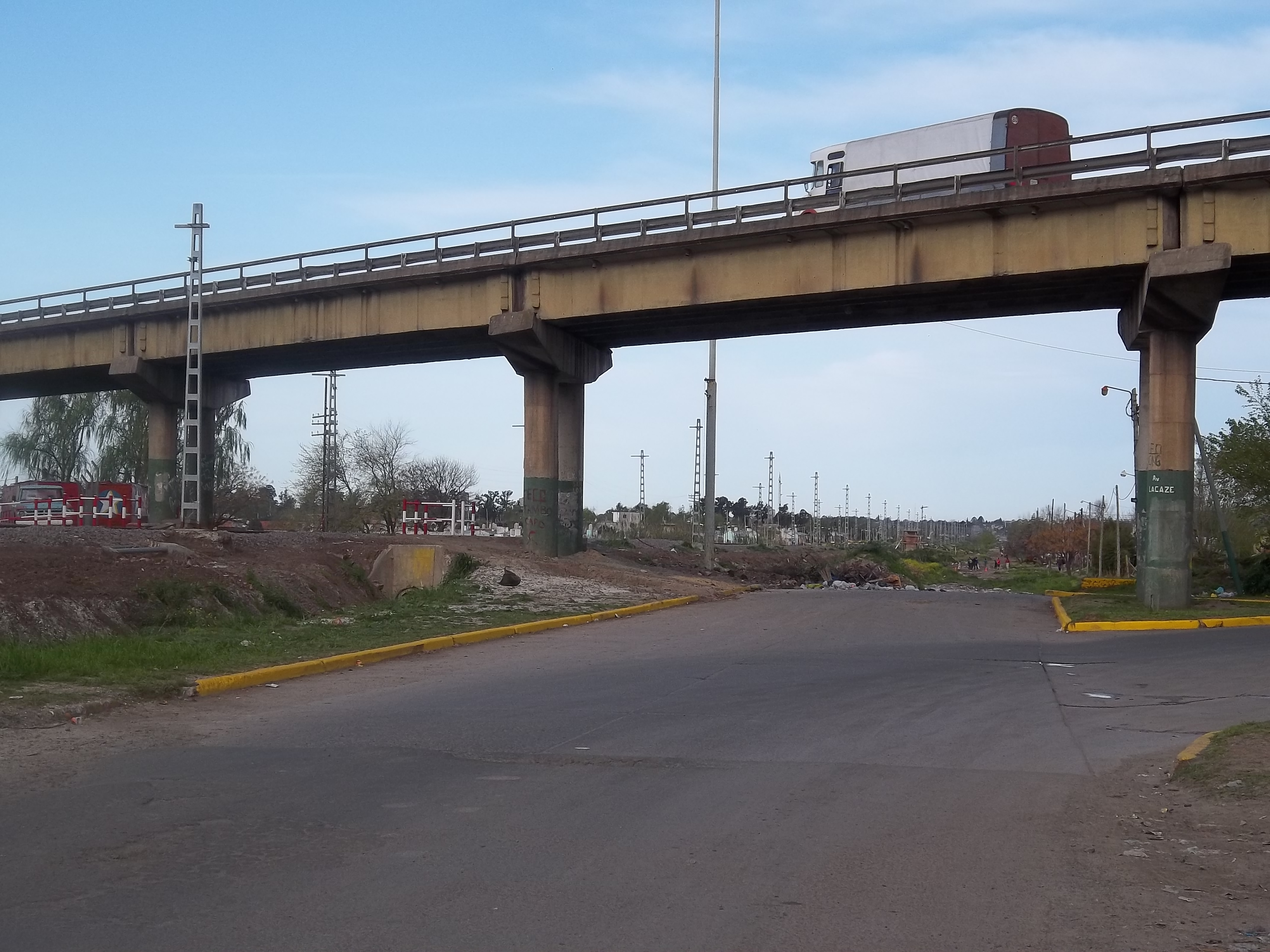 Puente Claypole de la Ruta Provincial 4 (Avenida Lacaze) sobre las vías del Ferrocarril General Roca en Claypole, partido de Almirante Brown, provincia de Buenos Aires, Argentina.